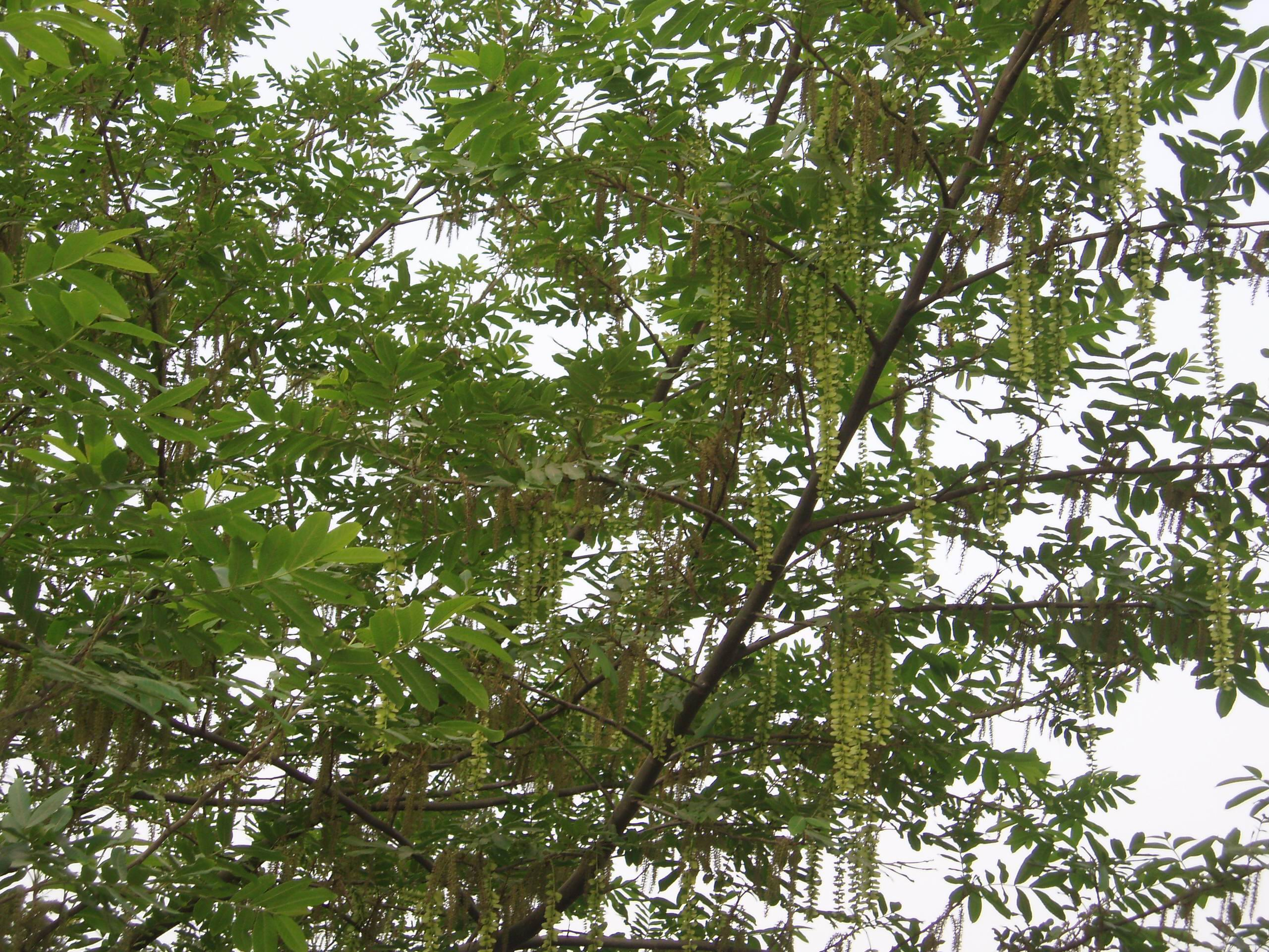 Chinese wingnut tree